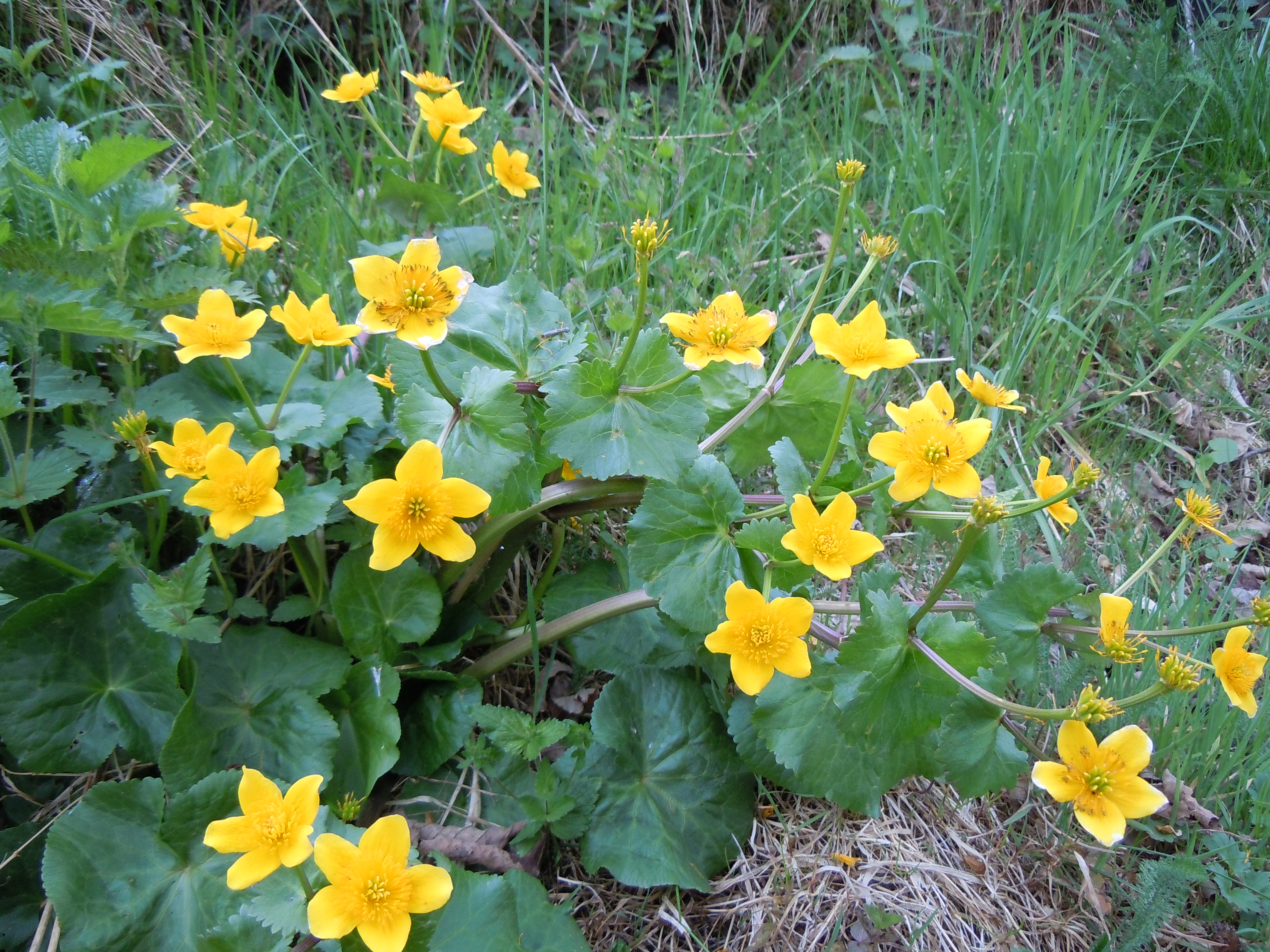 Romanian Flora - Wild yellow flower (Caltha palustris) found near Făgăraș Mountains